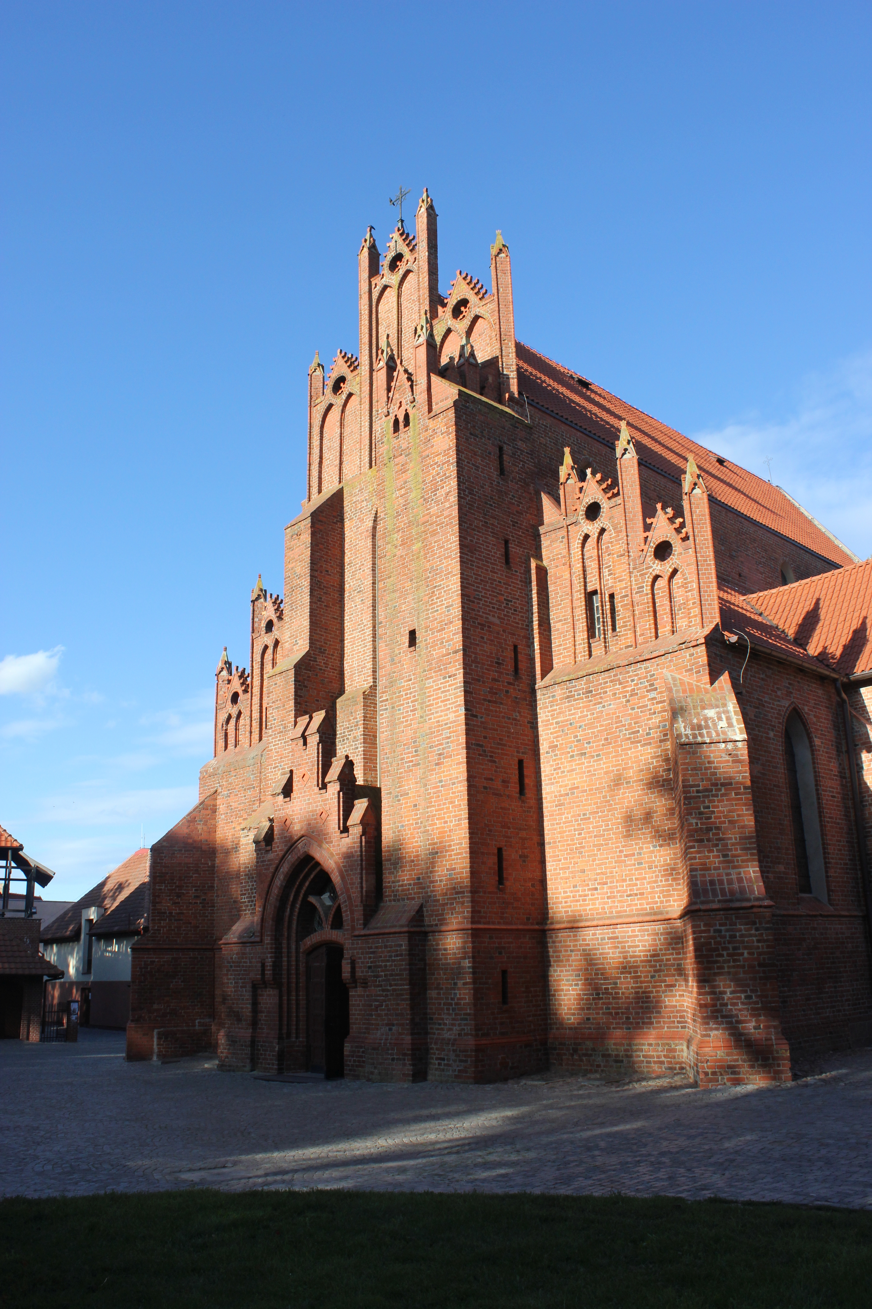 Starogard Gdański - St. Matthew's parish church